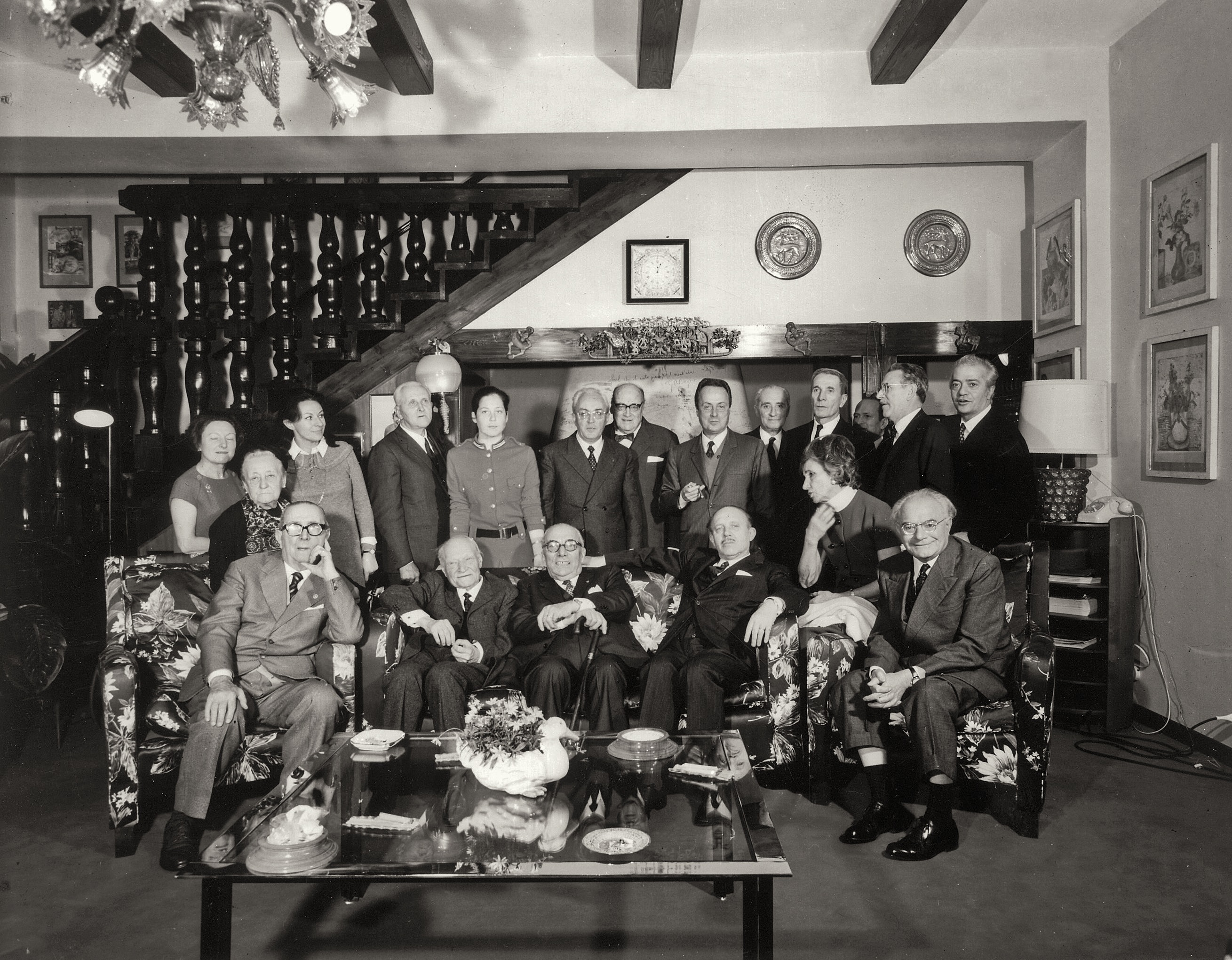 Italian publisher Arnoldo Mondadori with authors Giuseppe Ungaretti, Mario Soldati, Guido Piovene, Dino Buzzati, and Piero Chiara, in the villa of Meina, Christmas 1968.